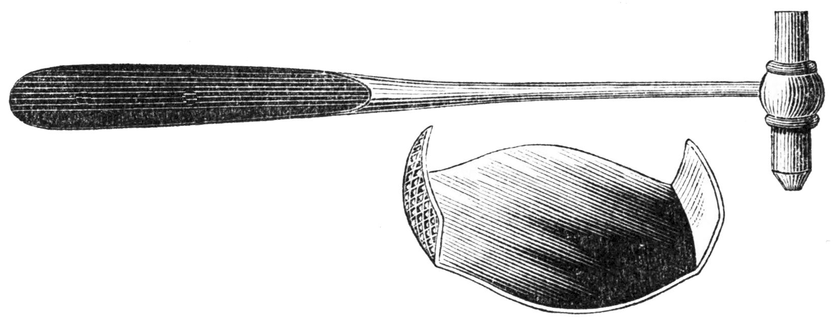 Flint percussor and pleximeter